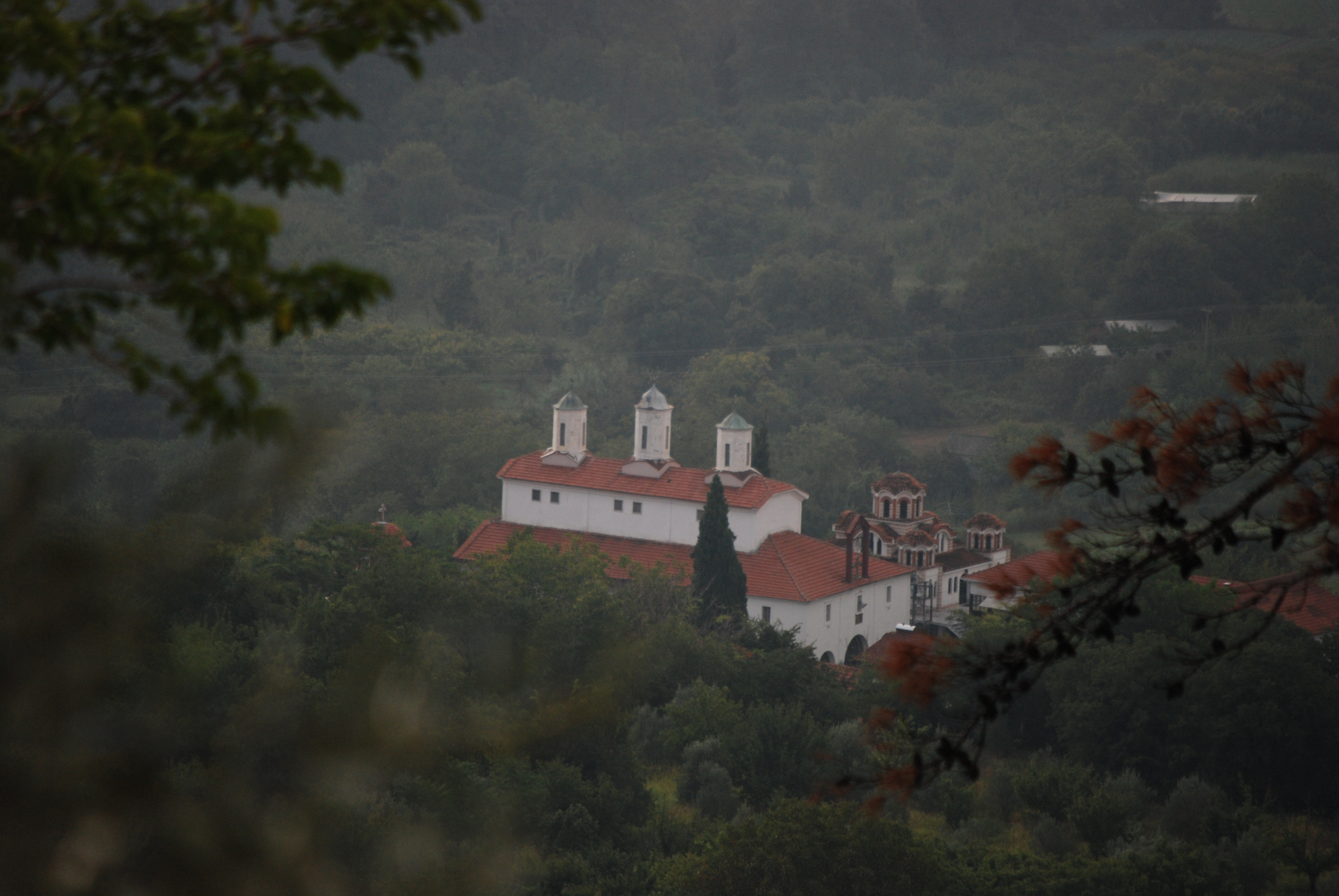 Holy Trinity Church in Edessa